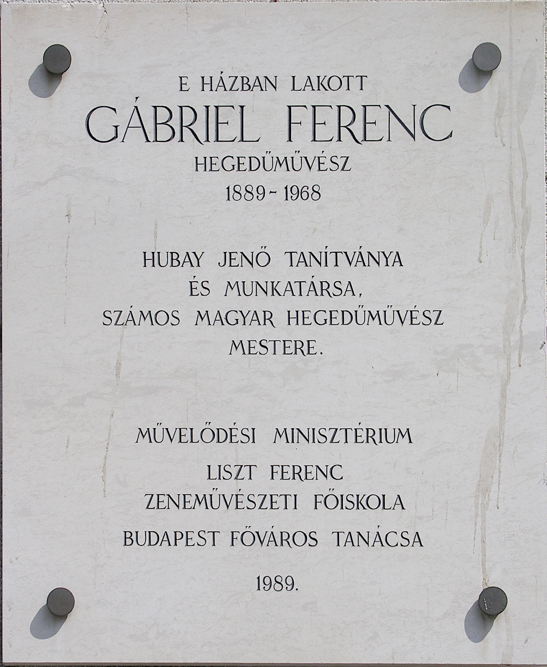 Commemorative plaque of Ferenc Gábriel in Budapest District V, Hold Street No 21